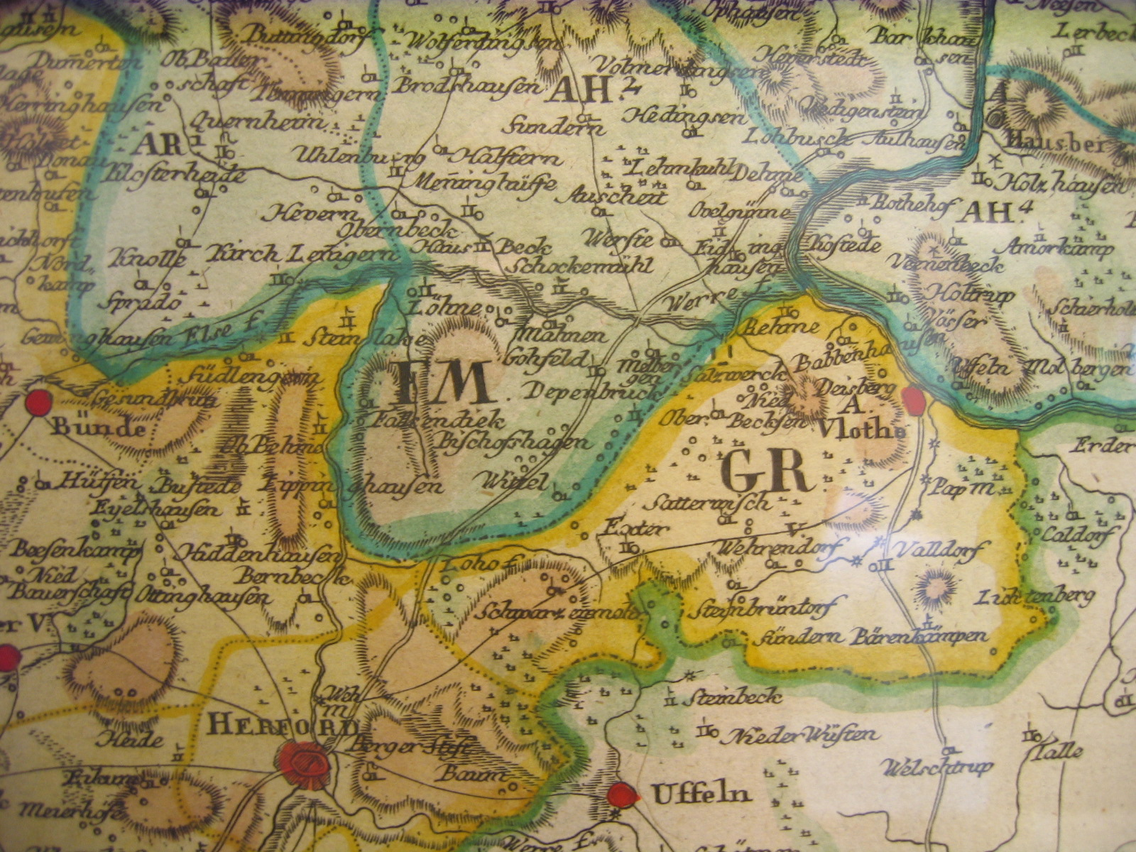 in Bünde, District of Herford, North Rhine-Westphalia, Germany.